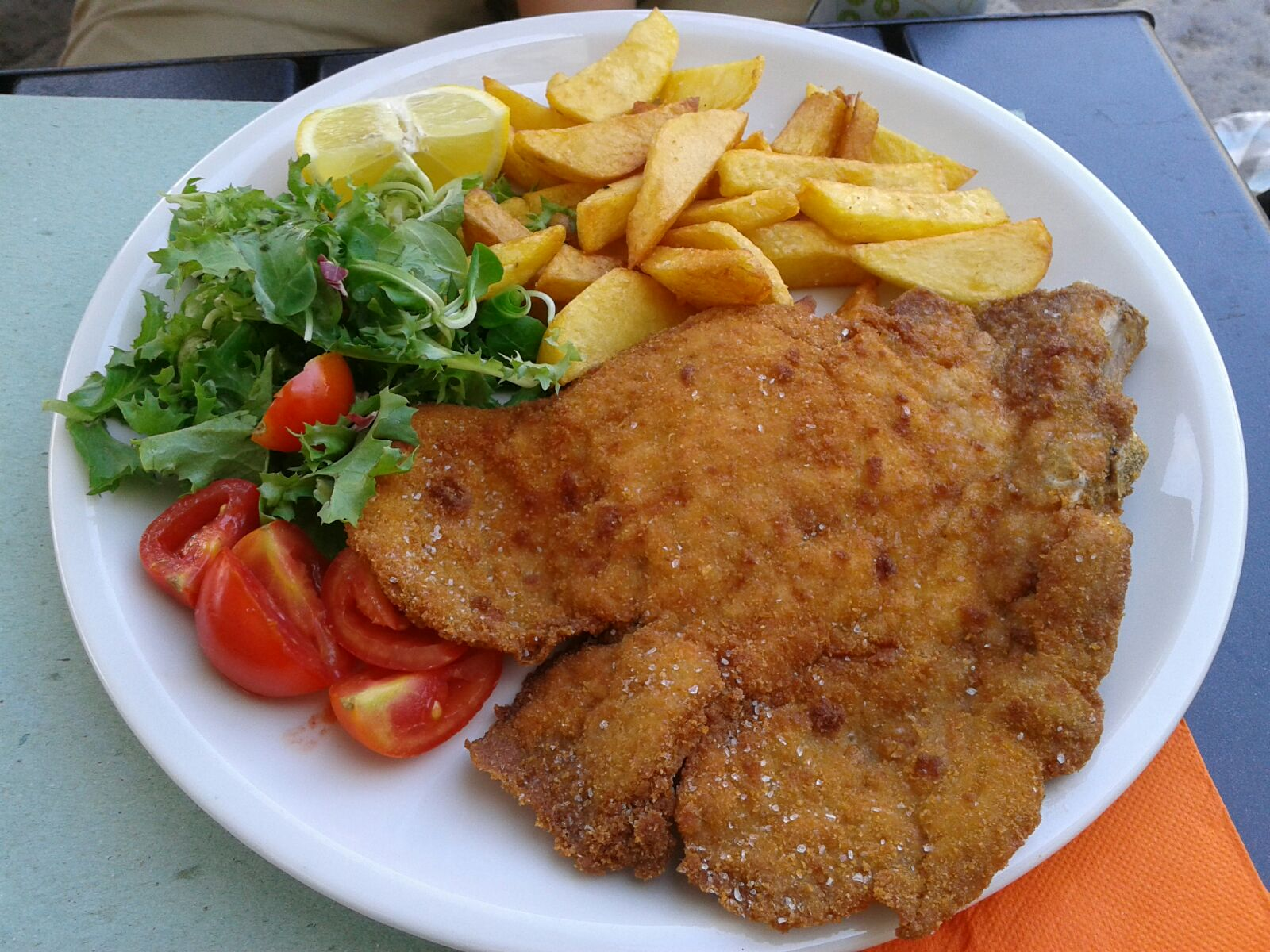 cottoletta milanese